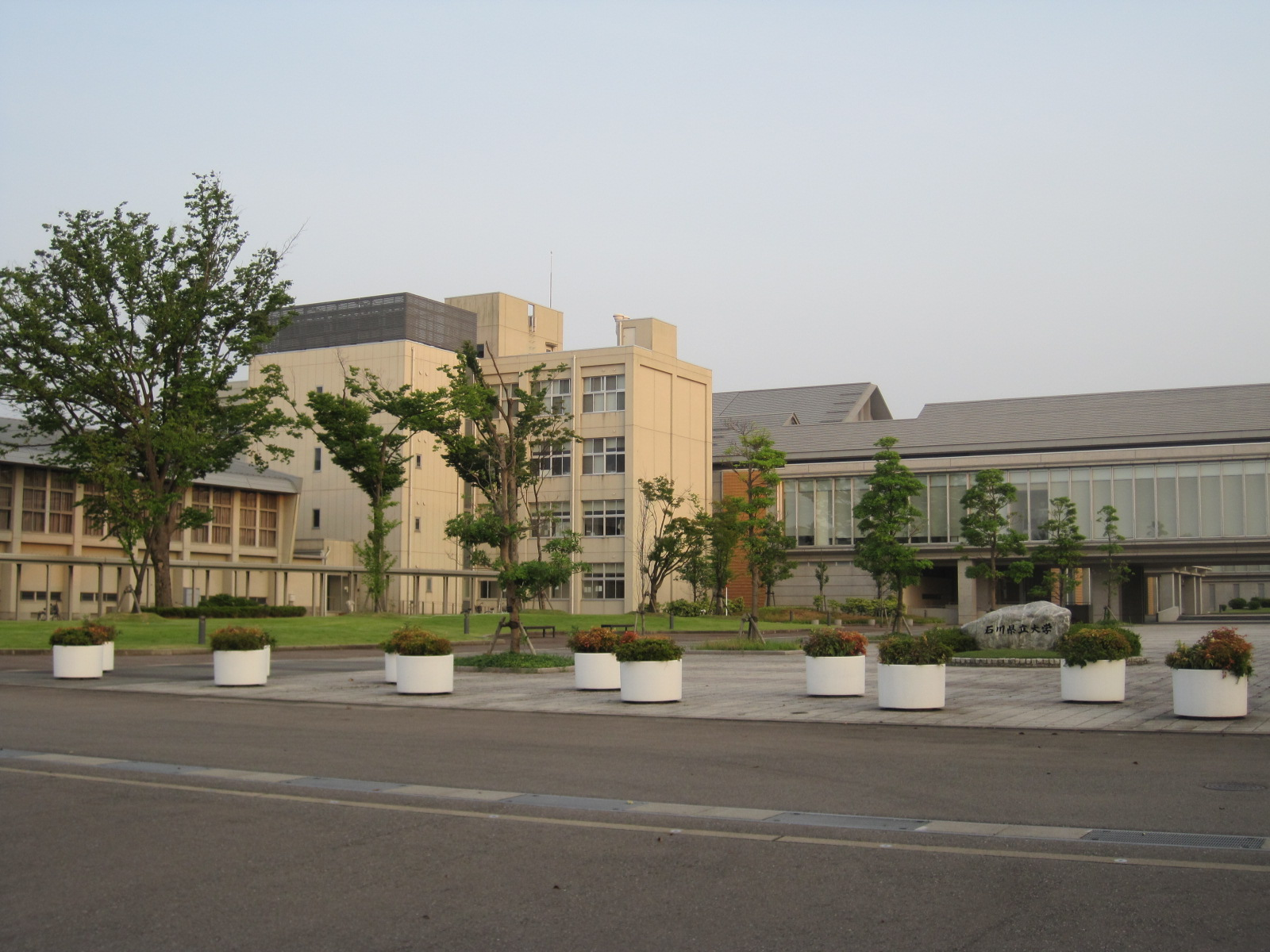 Ishikawa Prefectural University(Nonoichi town, Ishikawa prefecture)